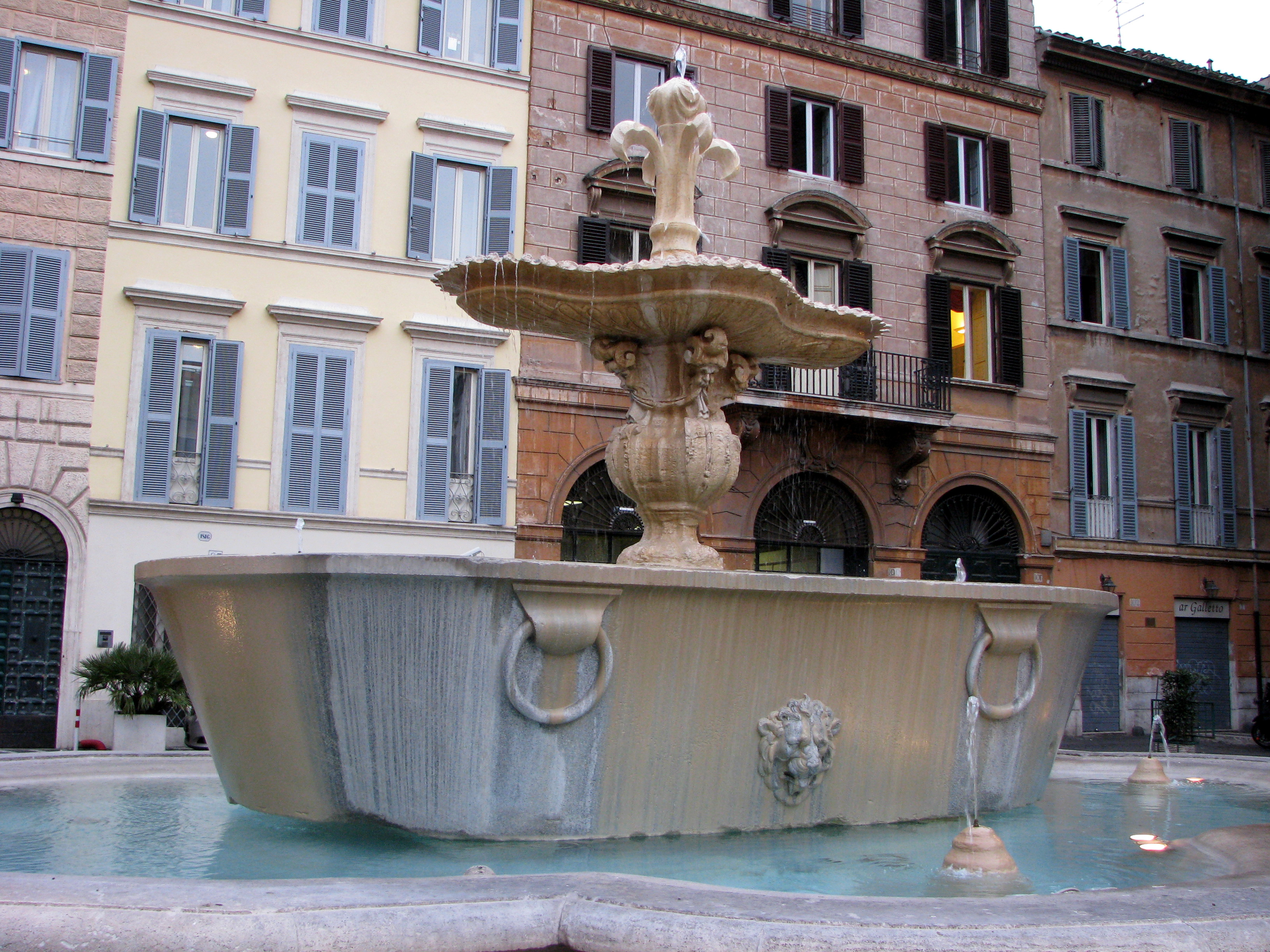 This marble basin is now one of two on the Piazza Farnese in Rome, but supposedly was the pool of the Frigidarium of the Thermae of Caracalla.